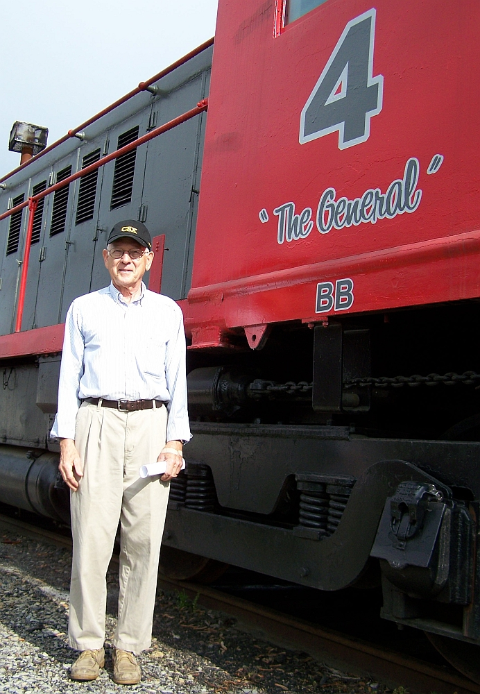 Robert Bryant, owner of the Buckingham Branch Railroad.